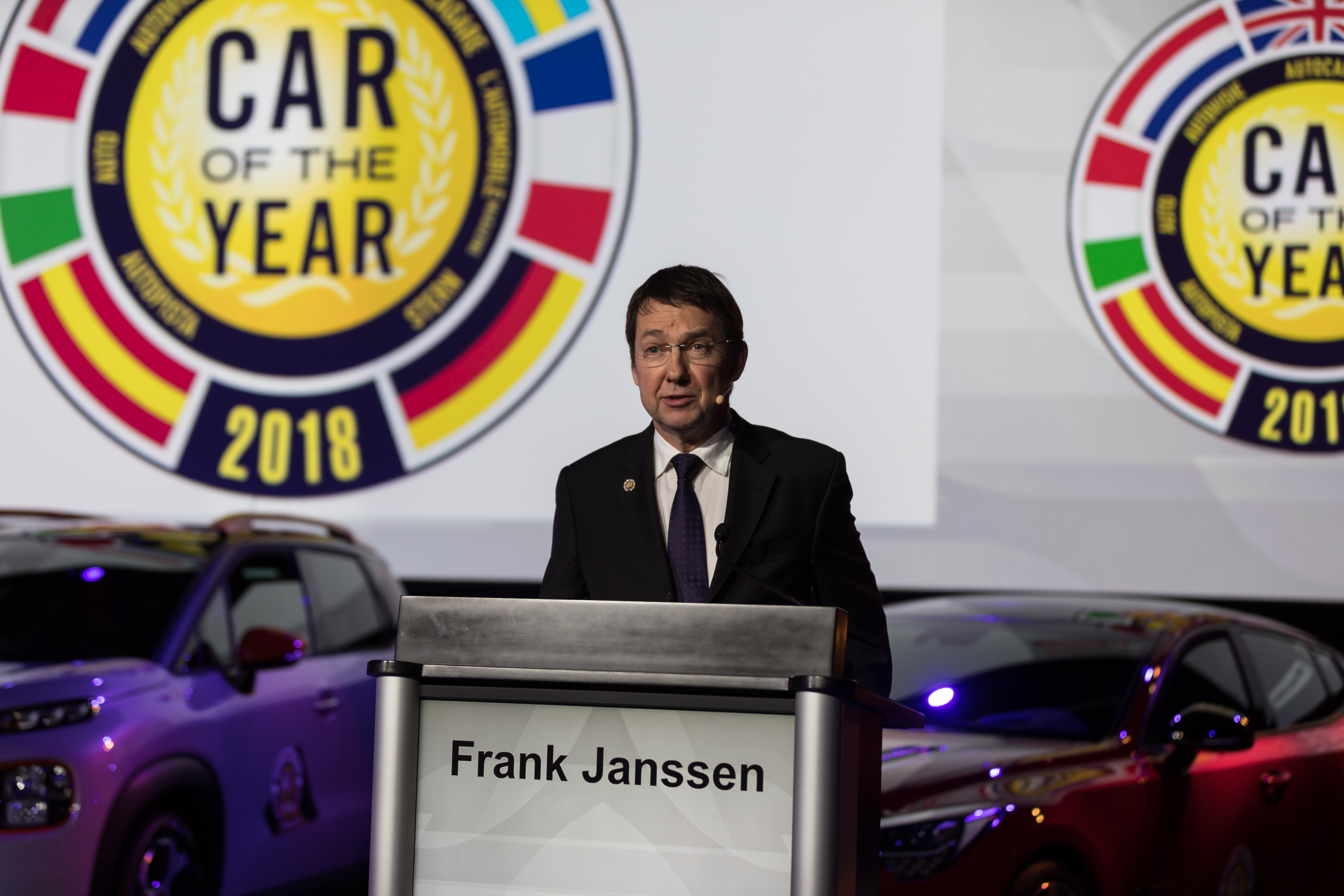 Frank Janssen at COTY 2018